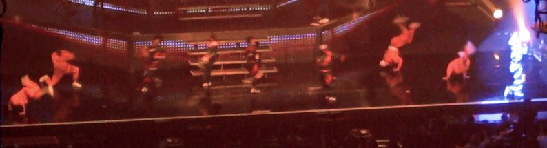 Gwen Stefani performing "Crash" at the Arrowhead Pond of Anaheim in Anaheim, California, United States